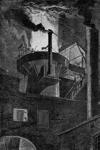 Pittsburgh Sketches -- The Top of a Blast Furnace, a wood engraving printed March 18, 1871 in Every Saturday, published by J. Osgood & Company, Boston, Massachusetts.